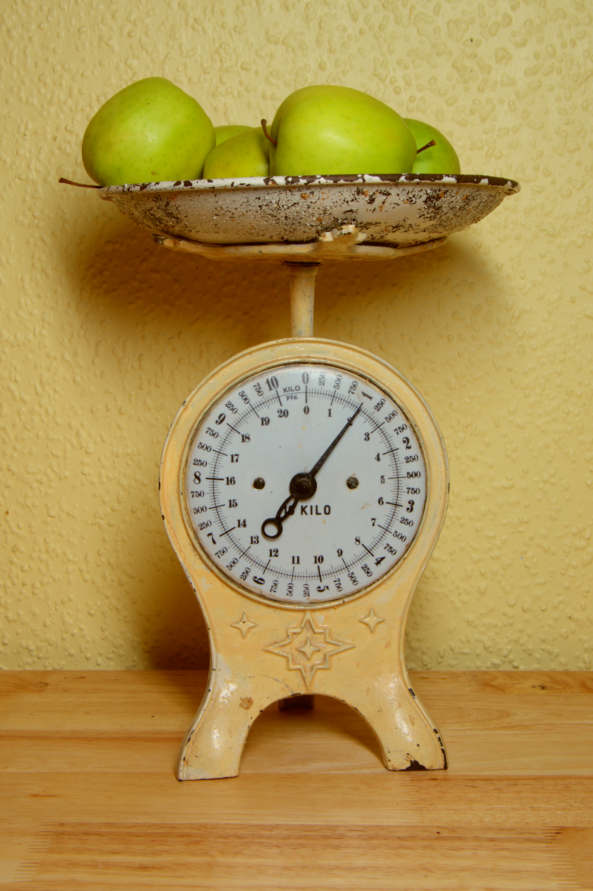 Weighing scale